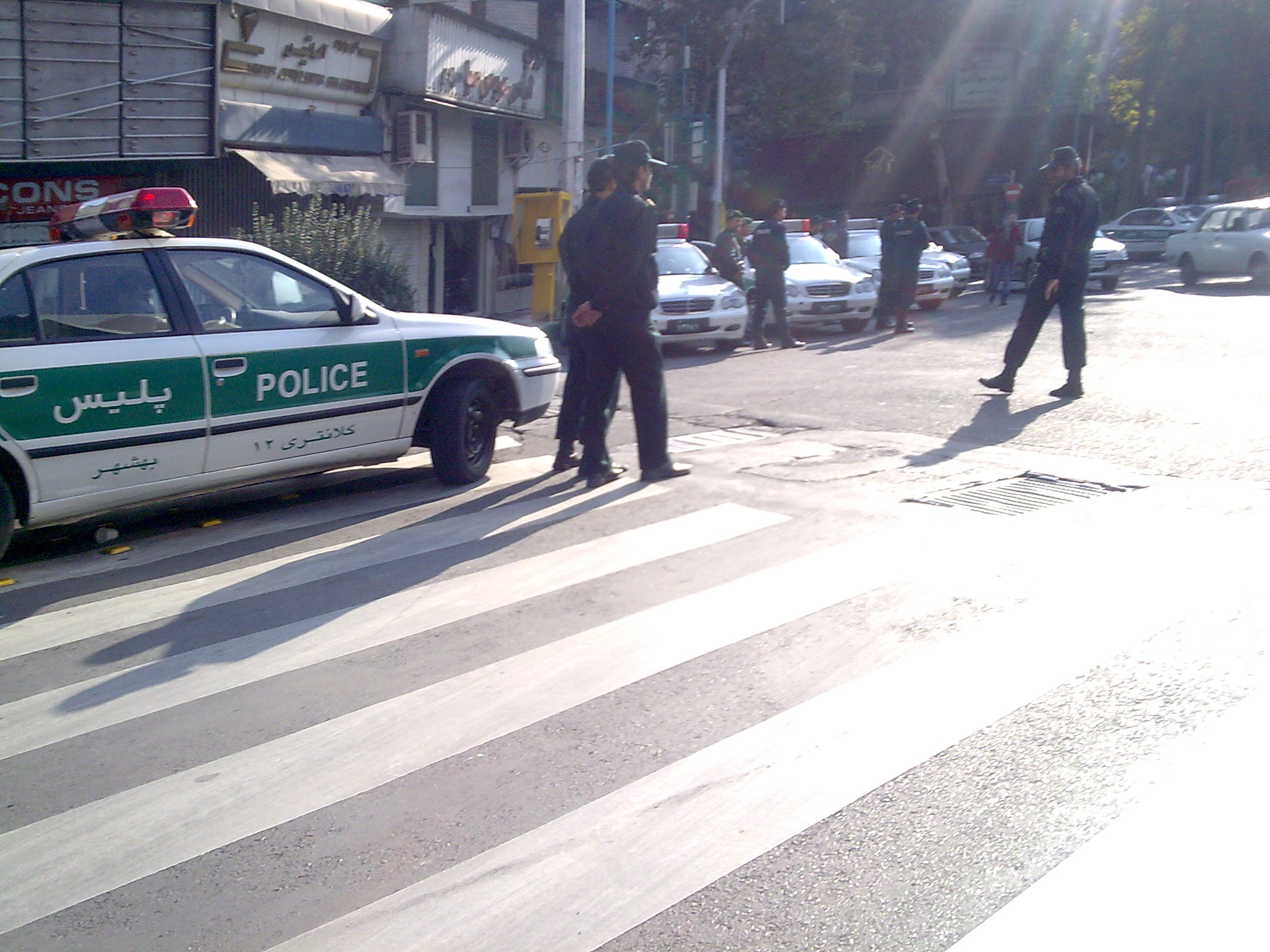 Amniato Aramesh Manoeuvre in Tehran, Iran